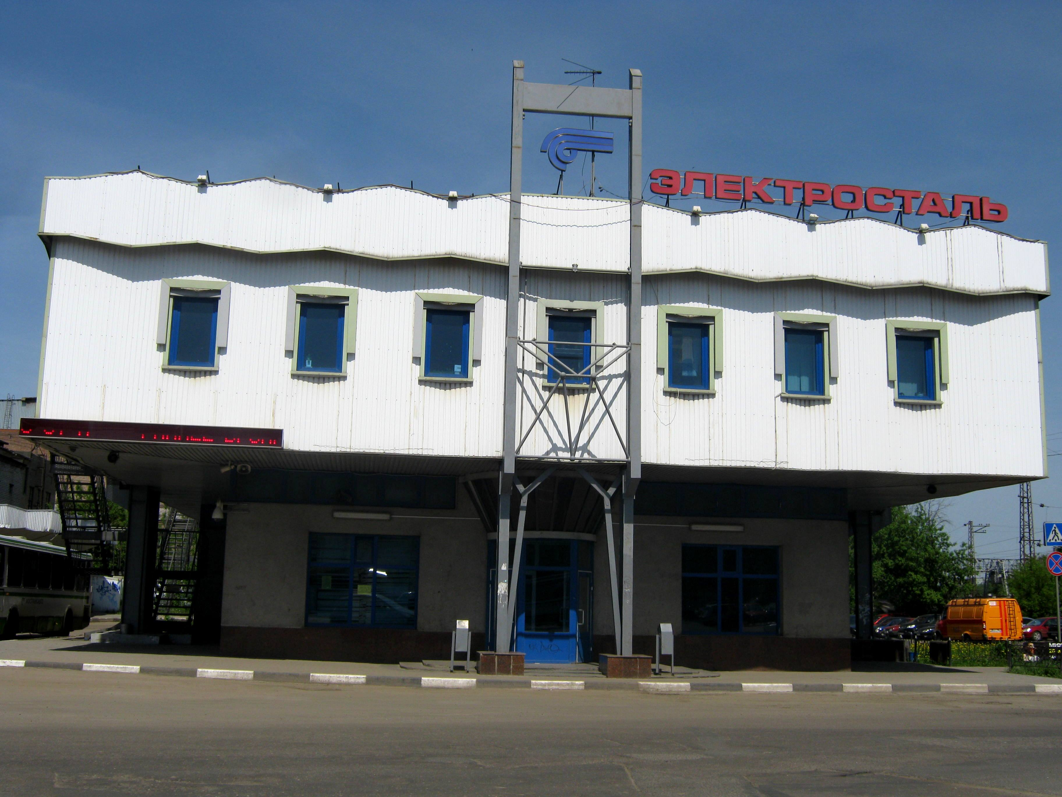 Автовокзал (Электросталь)